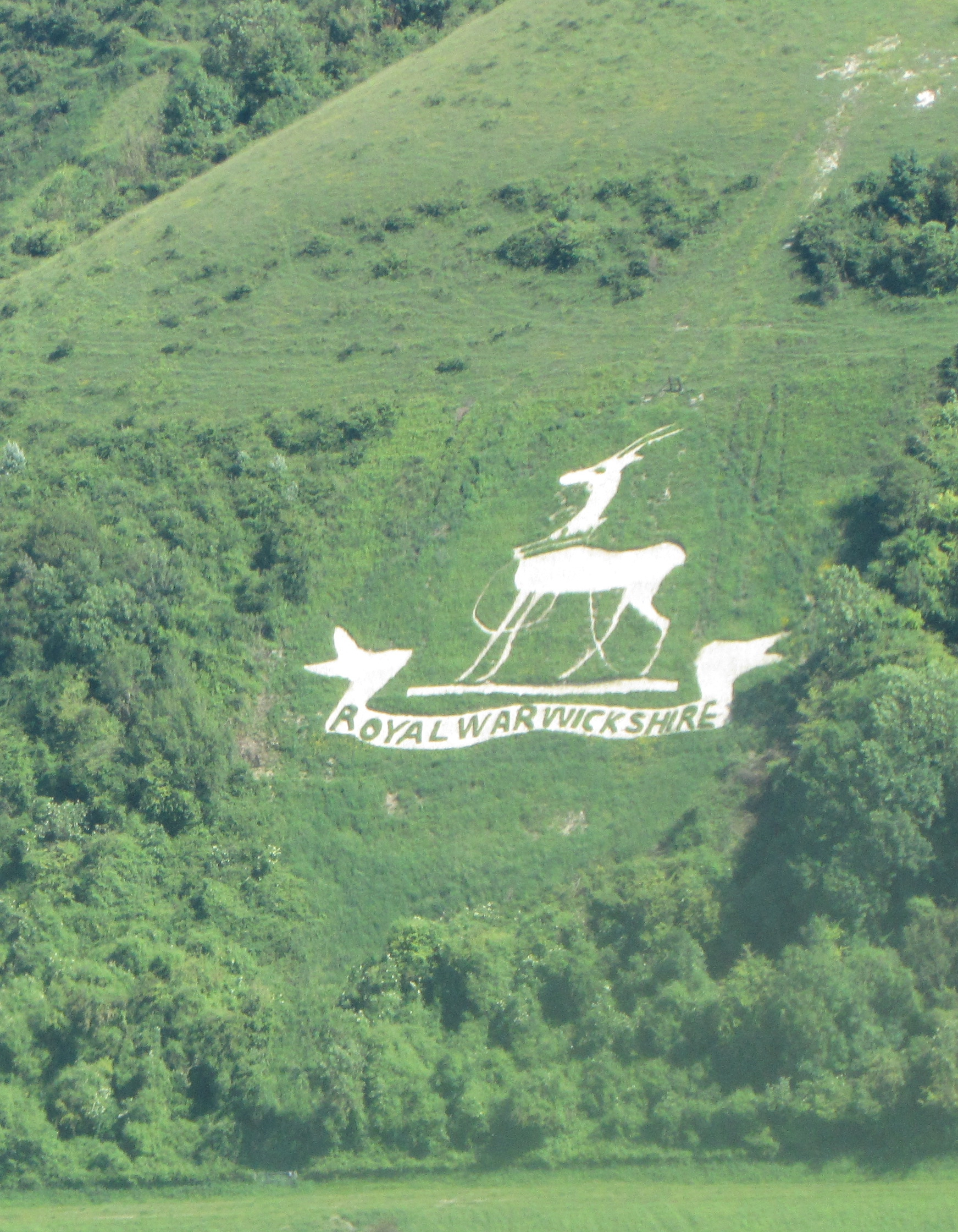 This image shows the regimental badge of the Royal Warwickshire Regiment on the downland to the south of Sutton Mandeville, about 10 miles west of Salisbury in the UK. It was originally cut during WWI when troops from that regiment were camped and trained below the hill as preparation for onward transit to the war theatre in France. The badge was cleared and refurbished during the spring of 2018 and the new work was inaugurated by His Royal Highness the Duke of Kent in a ceremony on Thursday, 3rd May 2018. The Duke of Kent is the Colonel-in-Chief of the Royal Regiment of Fusiliers the successor of the RWR.